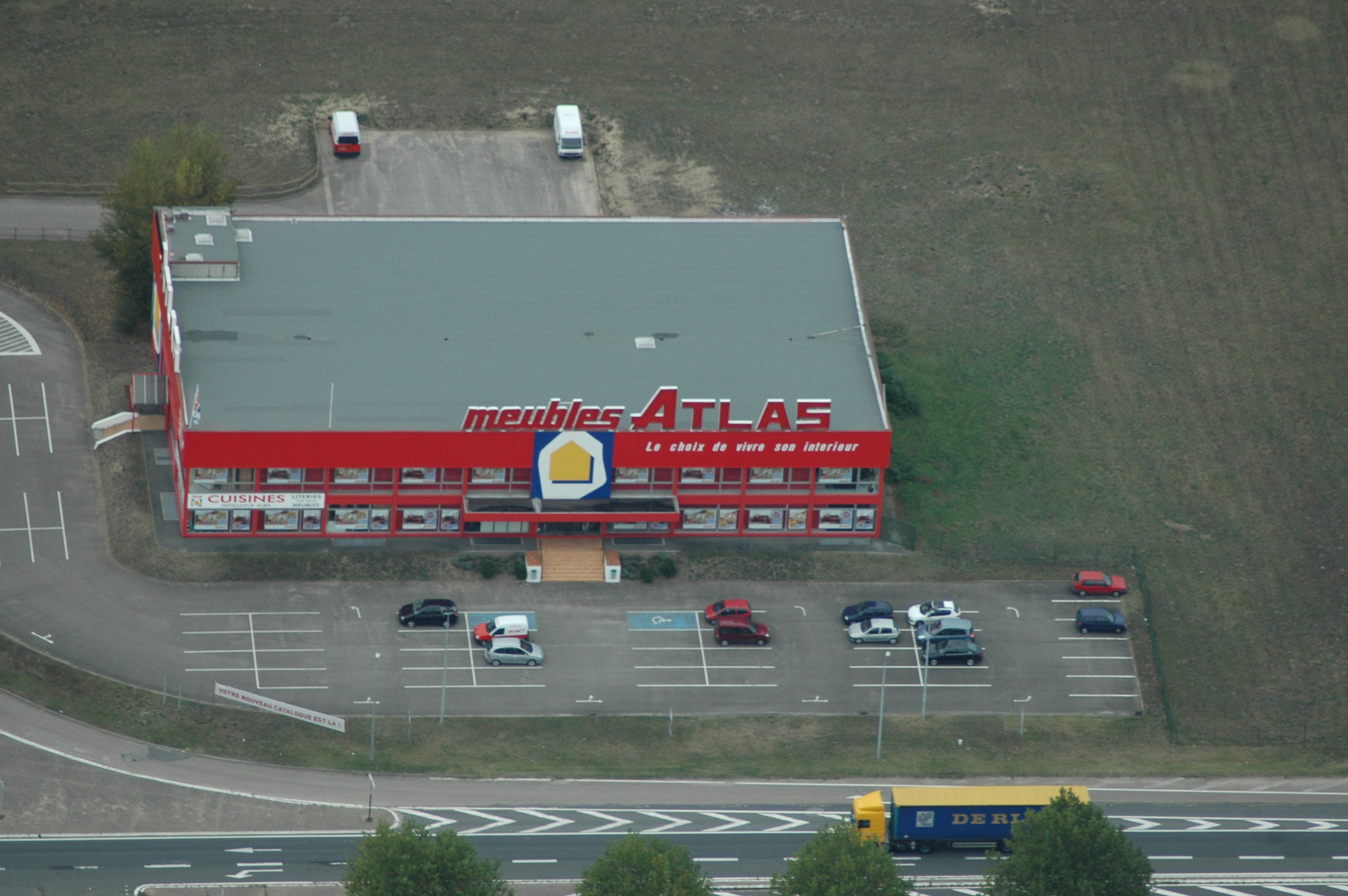 Meubles Atlas, Z.A. La Couasse, Avermes, France